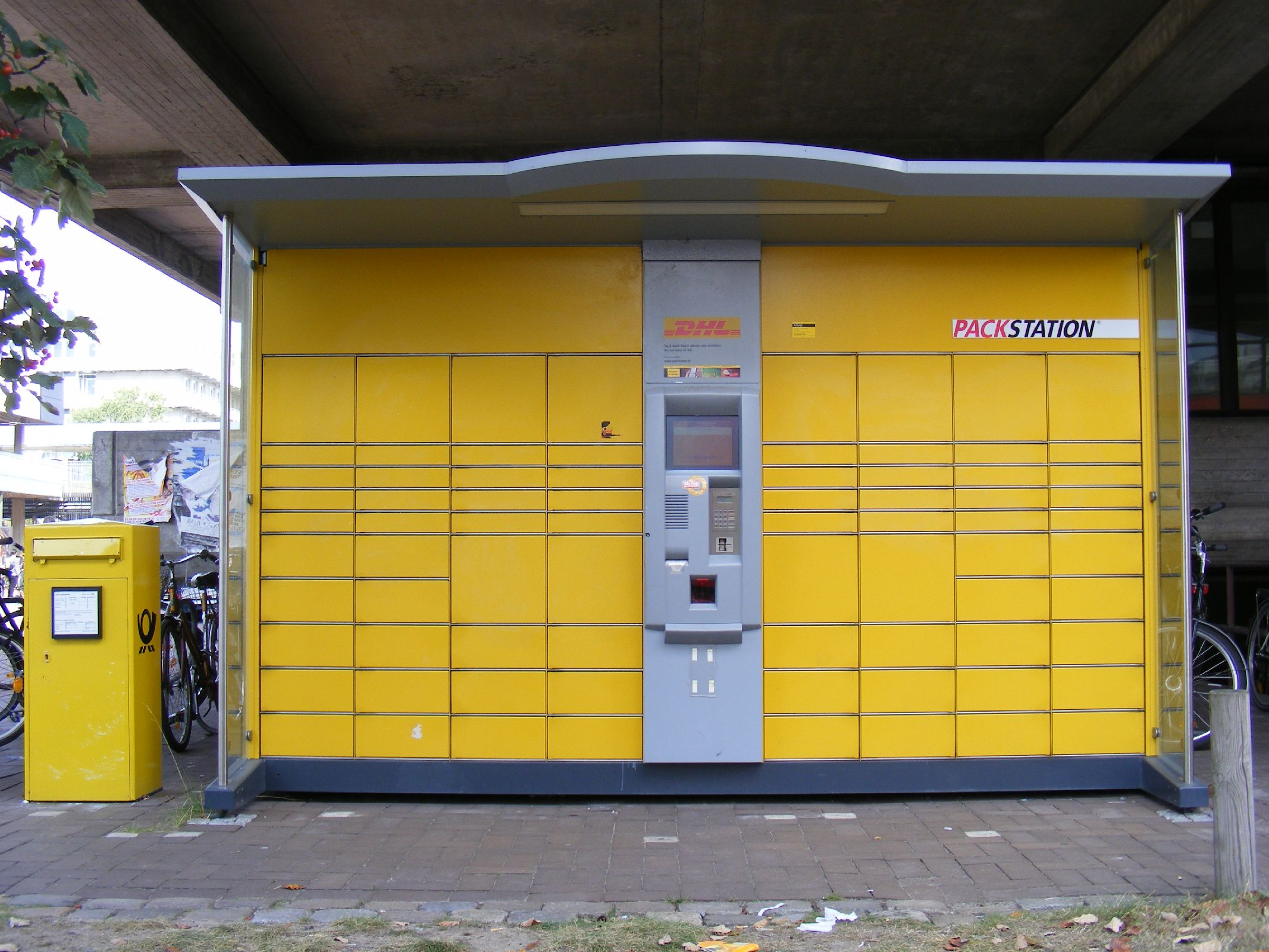 Cannot be used for items which need to be signed for.